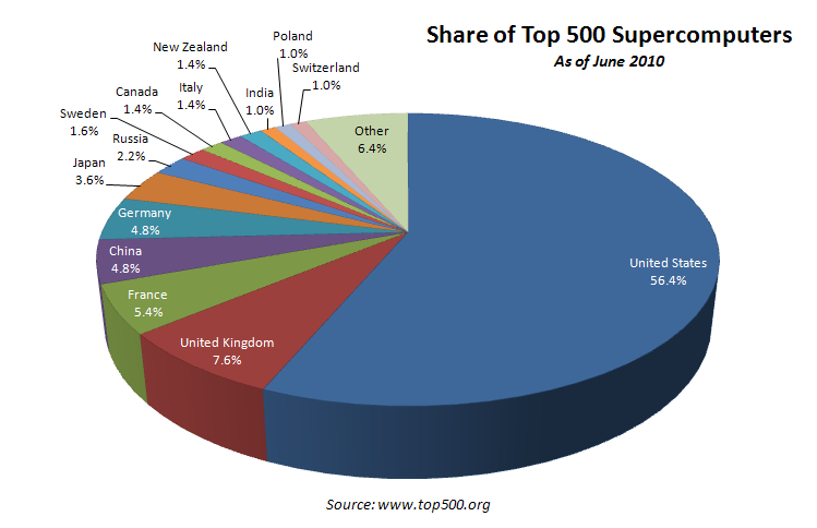 Countries share of supercomputers as of June 2010